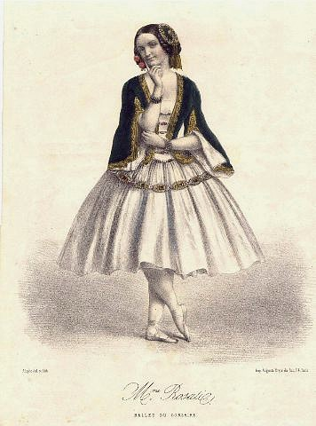 Lithograph of the Italian ballerina Carolina Rosati (1826-1905) costumed as Medora for the original production of the ballet Le Corsaire, which premiered at the Théâtre de l´Impérial de l´Opéra in Paris, 1856.